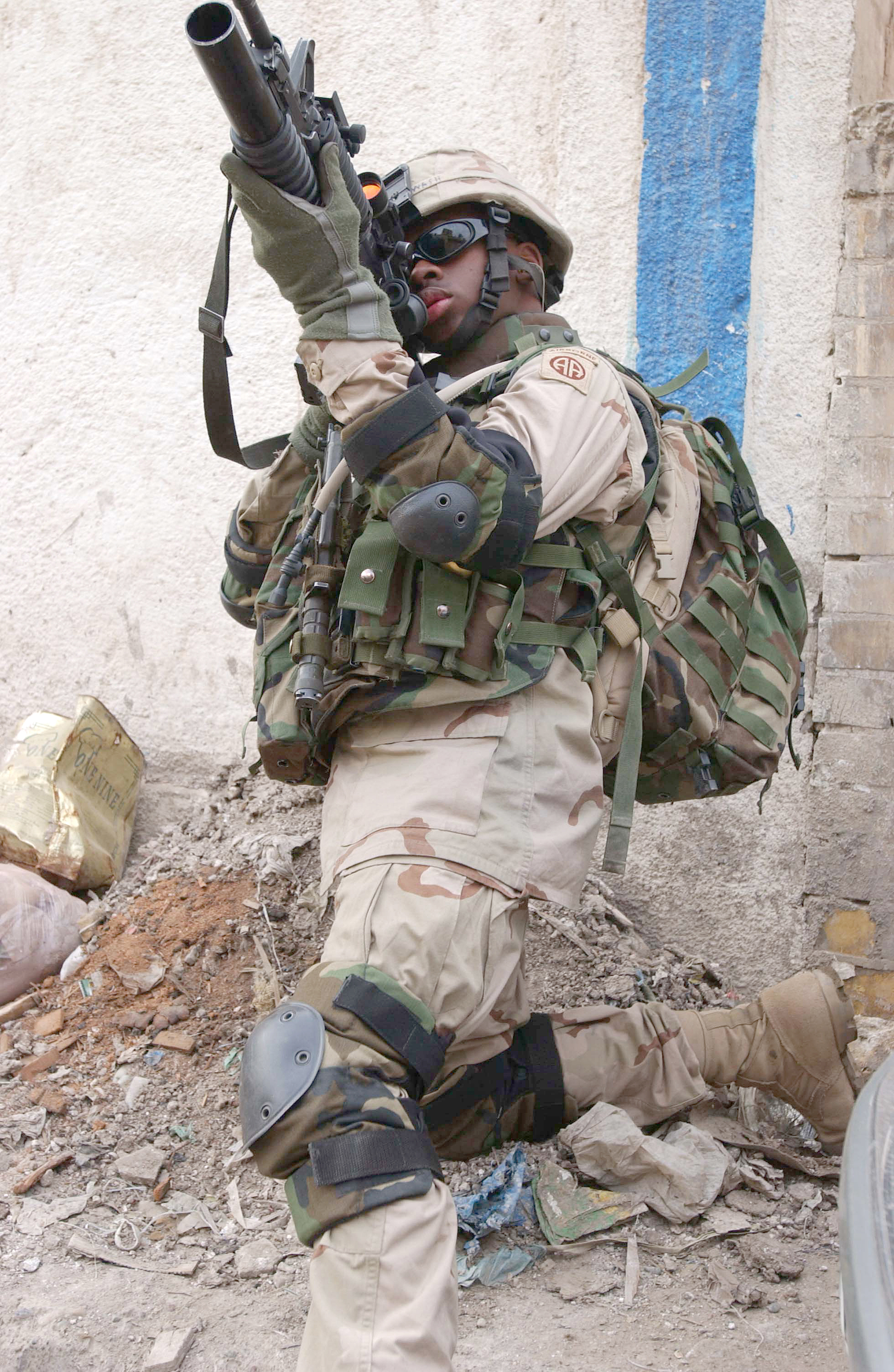 PFC Terrell Washington of C/2-319 AFAR, 82d Airborne Division, aims his M203 grenade launcher while on a foot patrol of Baghdad's Hotel District.